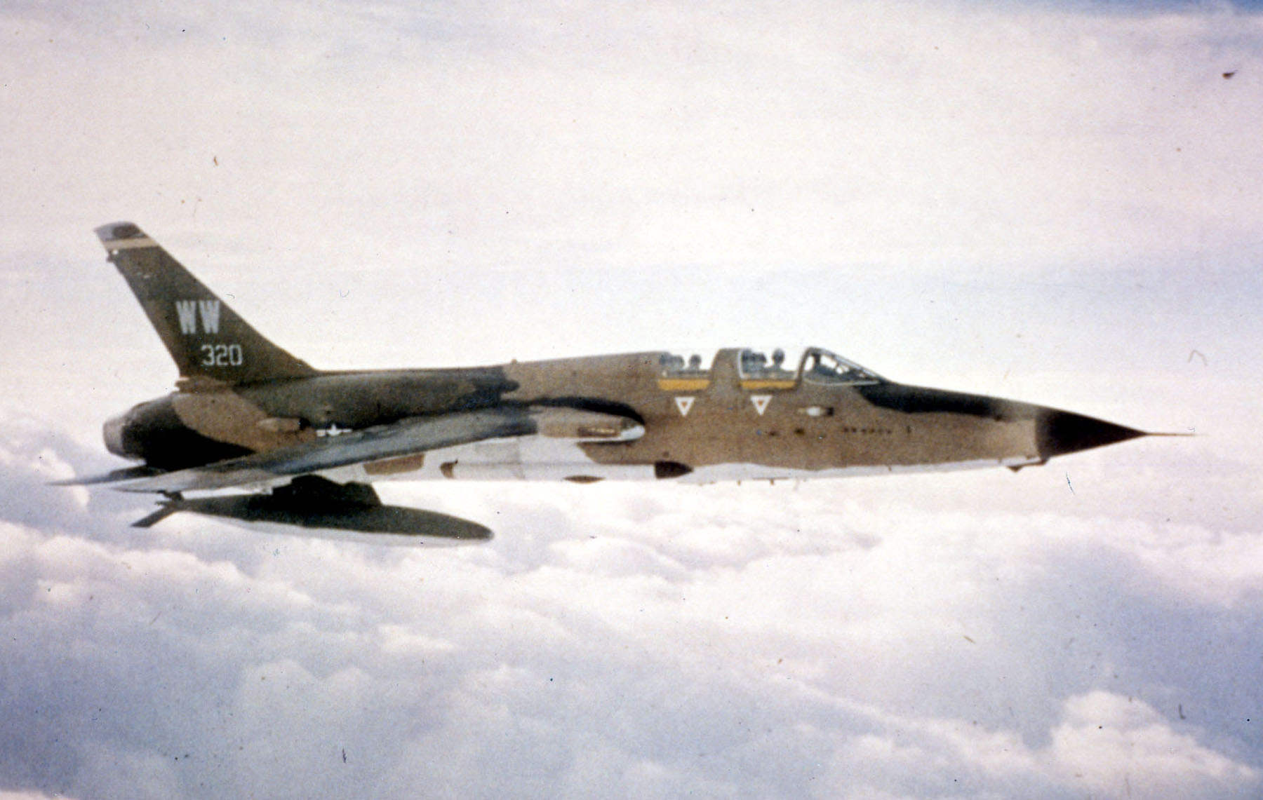 A U.S. Air Force Republic F-105G Thunderchief (s/n 63-8320) of the 561st Tactical Fighter Squadron, 388th Tactical Fighter Wing, over Southeast Asia in the summer of 1972. This aircraft is today on display at the National Museum of the United States Air Force.